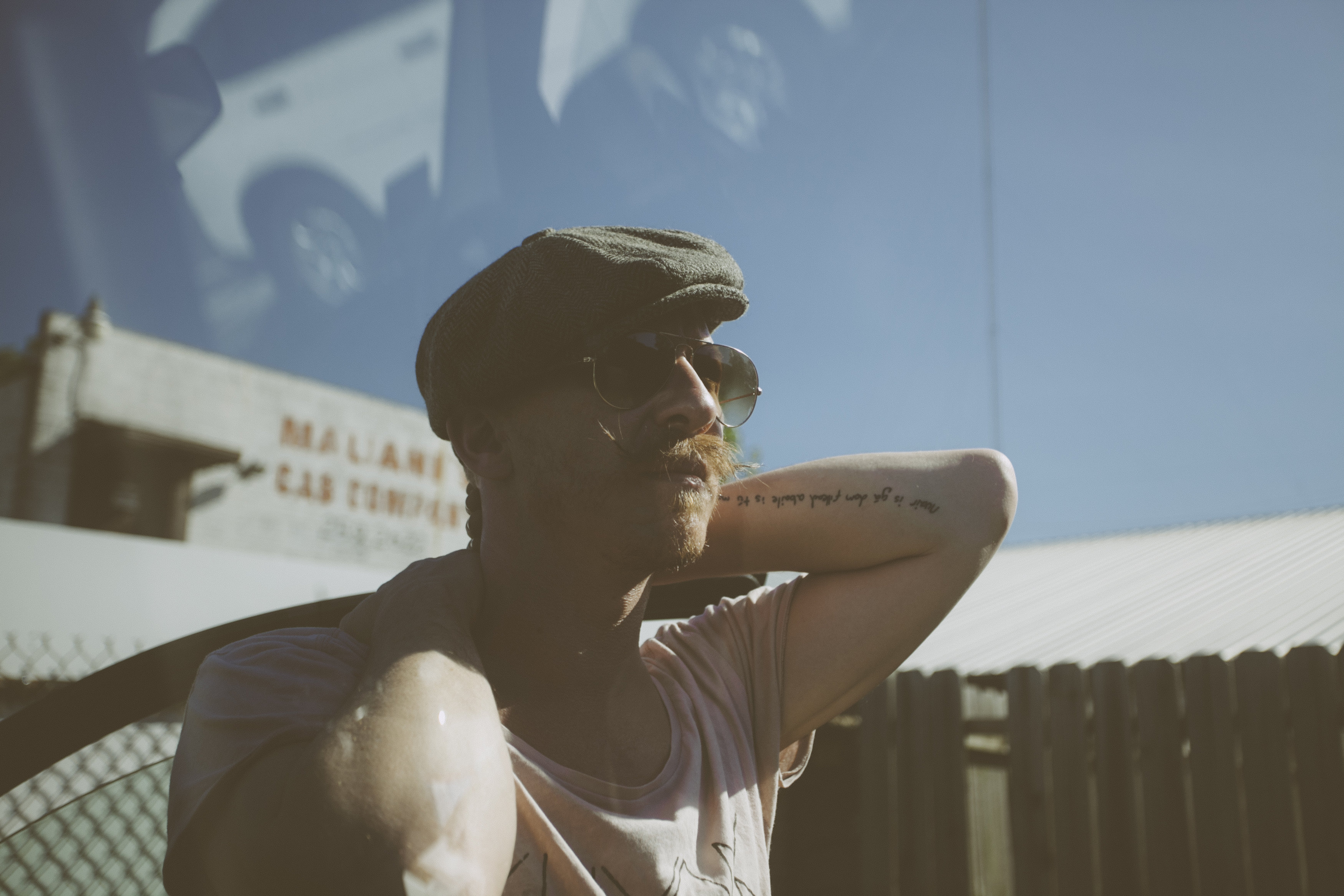 Foy Vance in 2013